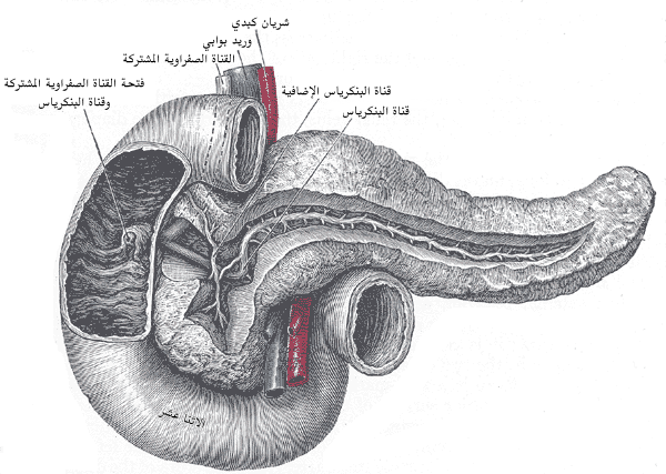 The pancreatic duct